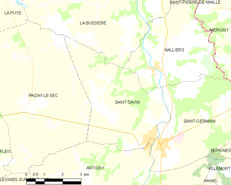 Map of French municipality Saint-Savin